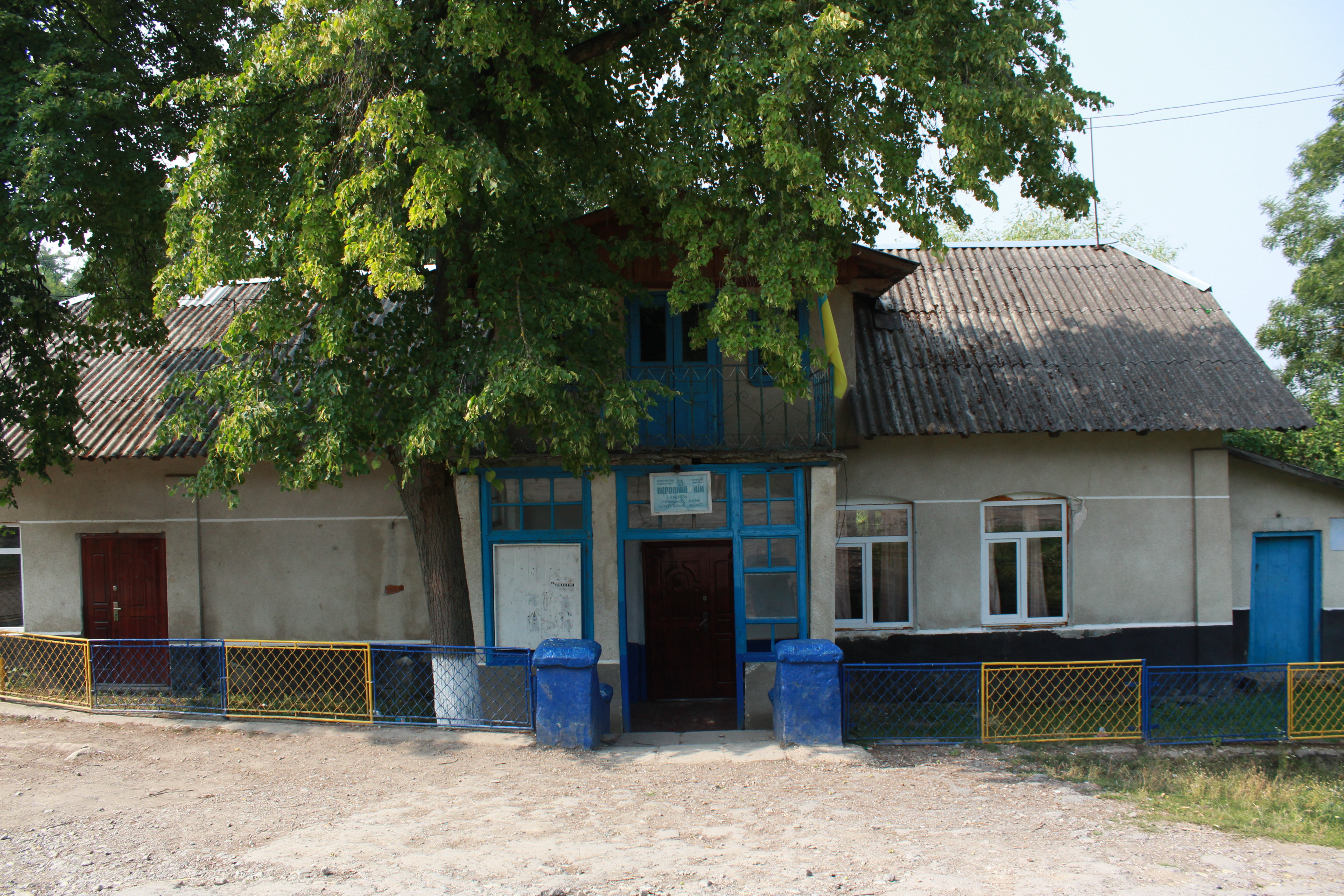 Народний дім, с. Хмелева, Борщівський район, 2016.